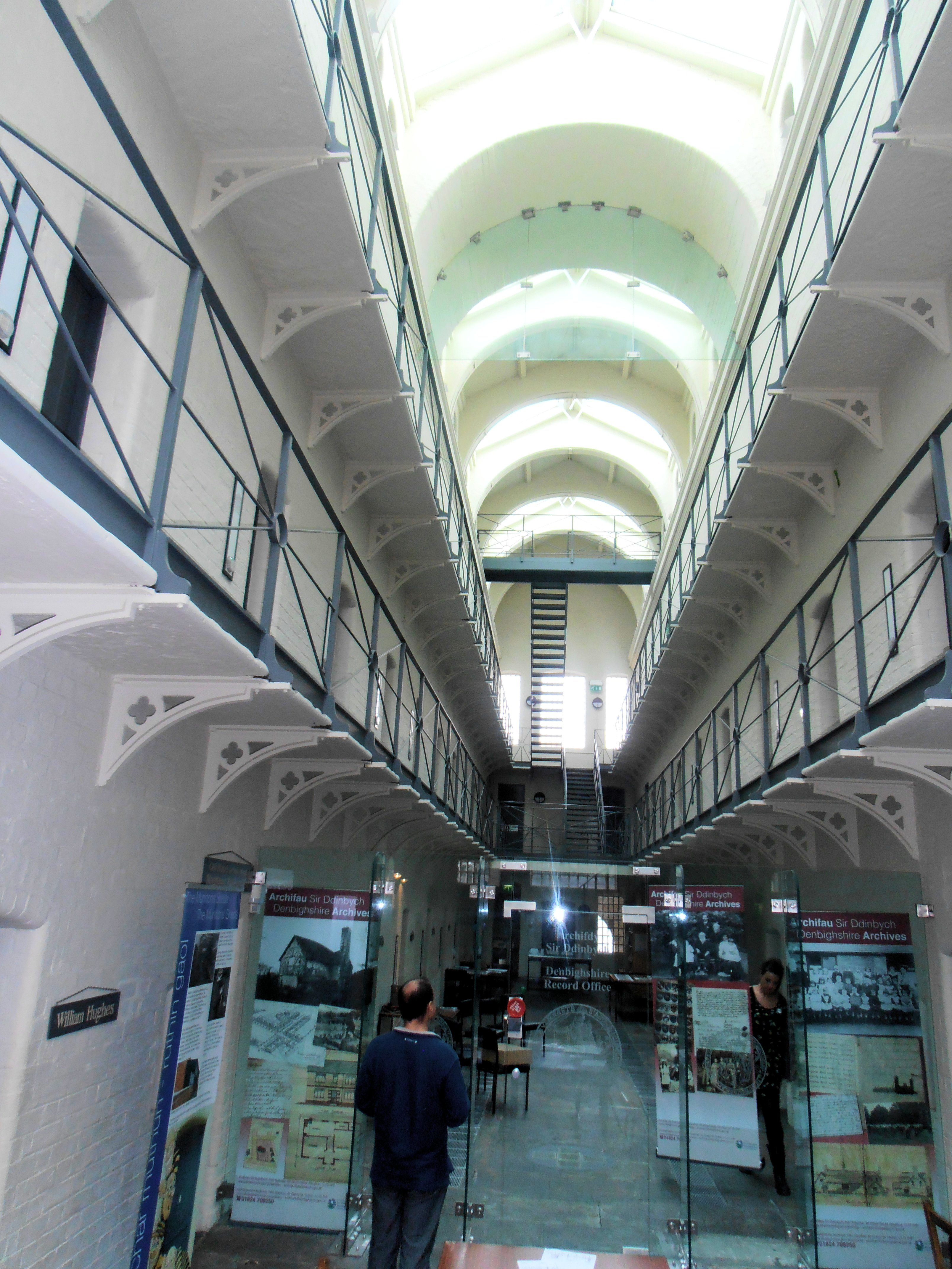 Ruthin Gaol, Ruthin, Denbighshire. Grade 2* lsied building.